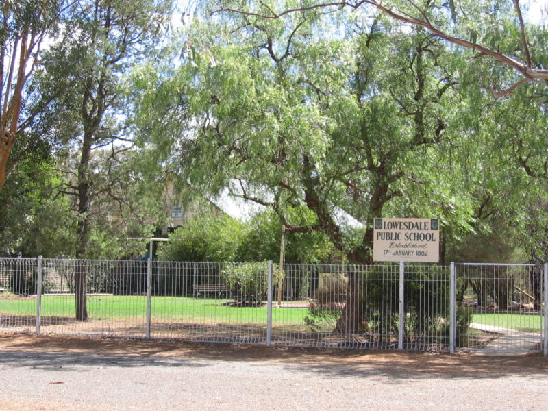 Lowesdale Public School. The school is actually located at nearby Buraja, New South Wales.